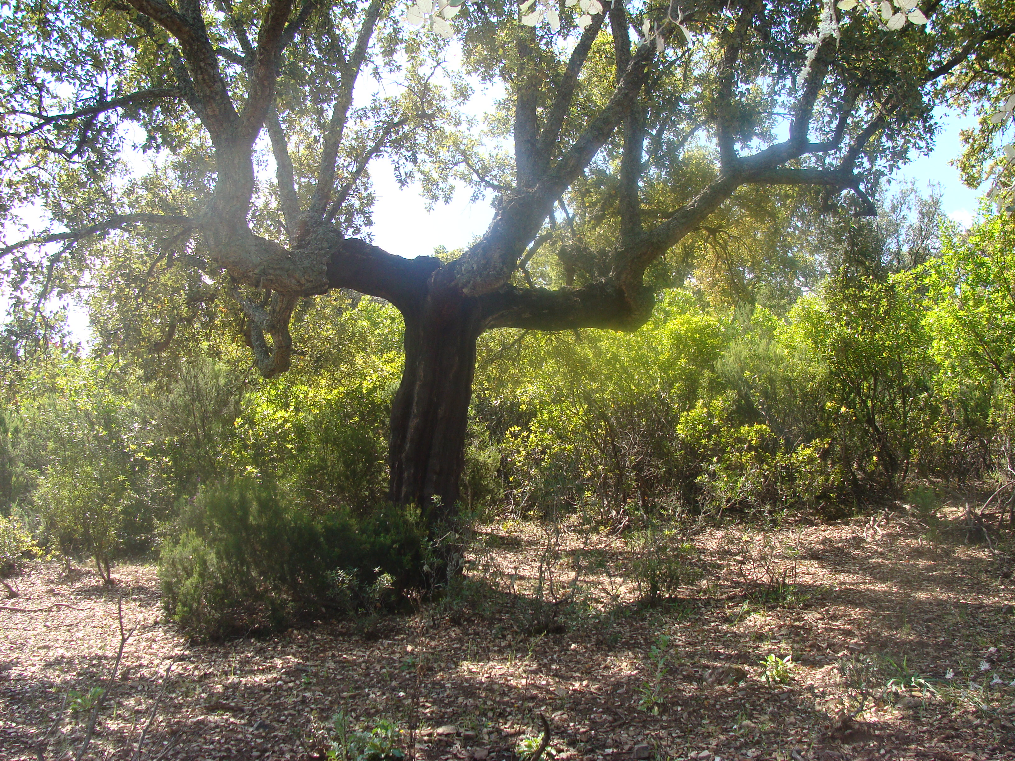 Quercus suber (Cork Oak), in the National Park of Monfragüe, Cáceres, Extremadura, Spain.